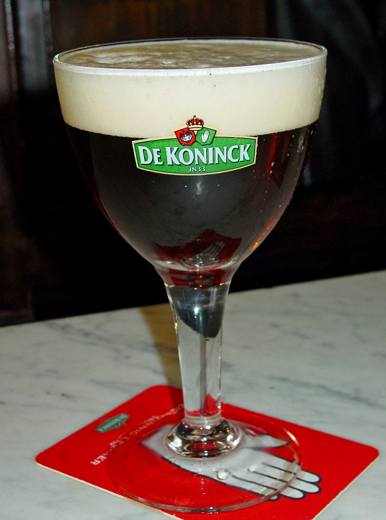 De Koninck, Belgian beer